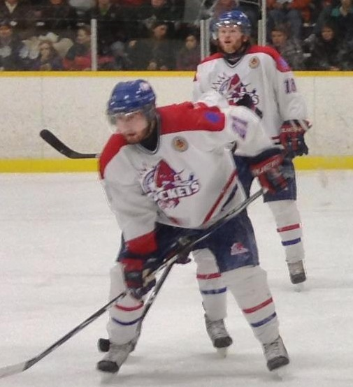 This photo was taken by Devan Mighton during the 2013 GOJHL playoffs.